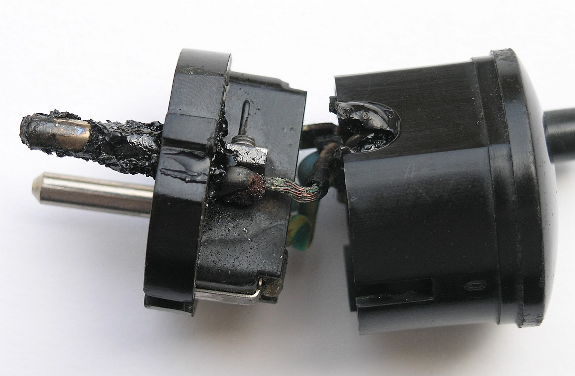 Defective mains plug, caused by tinned stranded wire